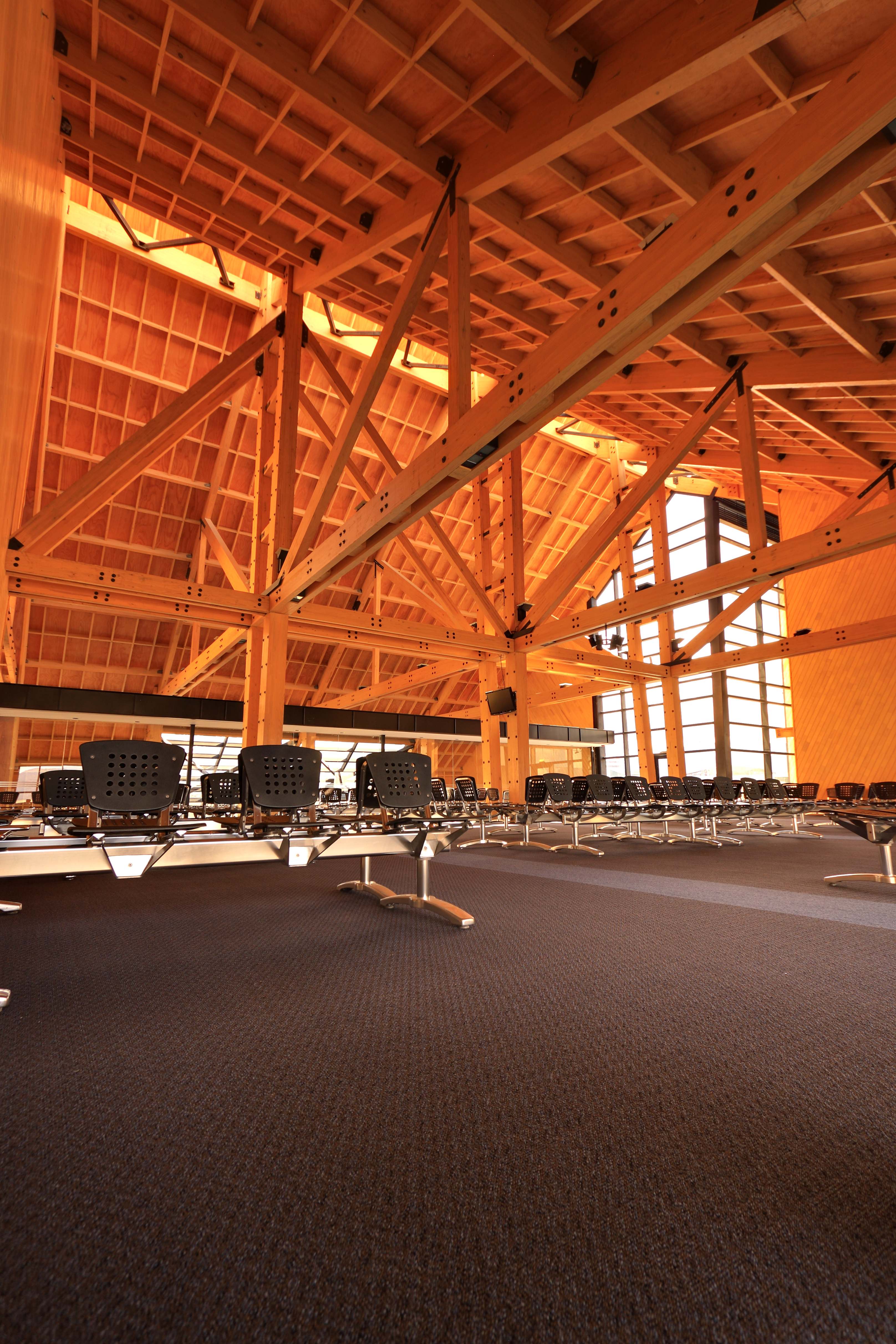 Please, have this description accessible to all by translating it in different languages.